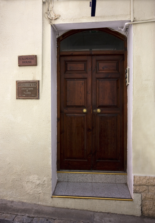 Entrance to Calpense House in College Lane, Gibrlatar, where the El Calpense newspaper was printed.